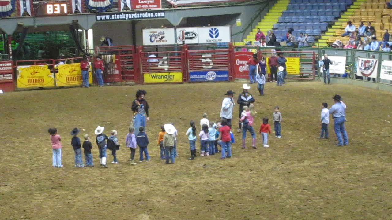 I took photo of Fort Worth rodeo at Cowtown Coliseum